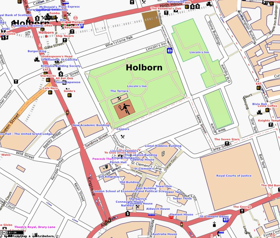 This map of Lincoln's Inn Fields was created from OpenStreetMap project data, collected by the community. This map may be incomplete, and may contain errors. Don't rely solely on it for navigation.